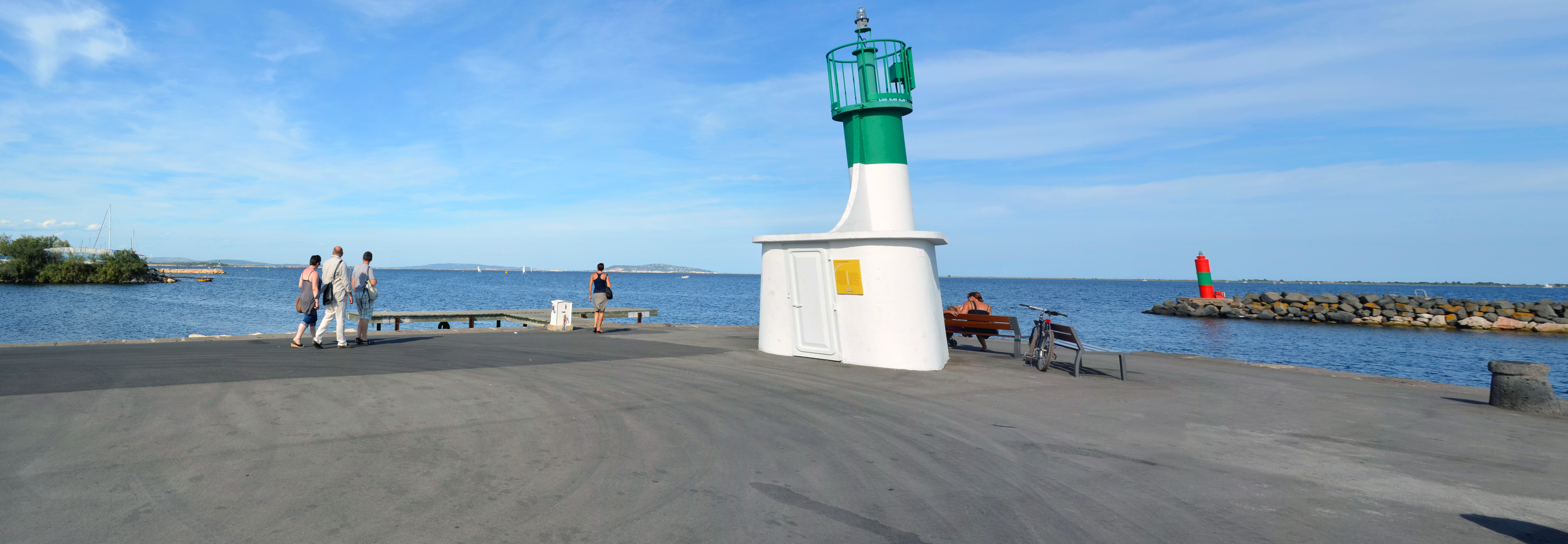 Large view of Marseillan harbour.